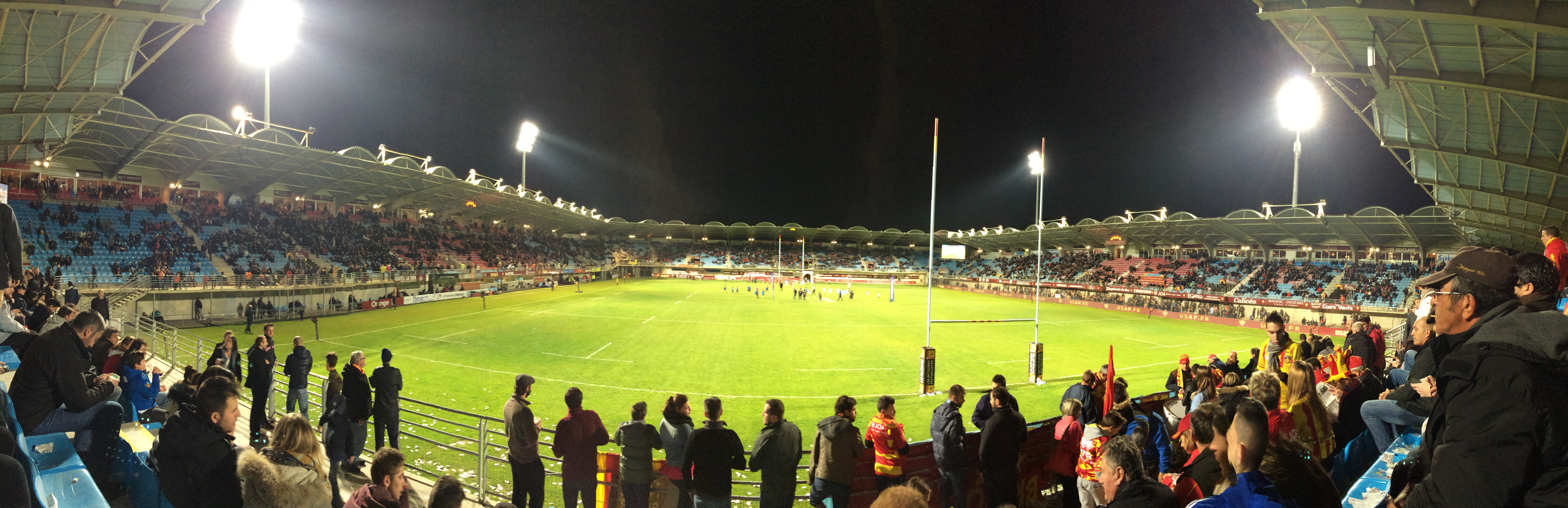 Panoramic photo of the Stade Aimé Giral (Perpignan) during the break of the rugby match USAP - Narbonne, 25th March 2016.